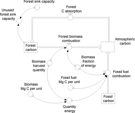 A model of carbon dynamics within a forest ecosystem written in STELLA.